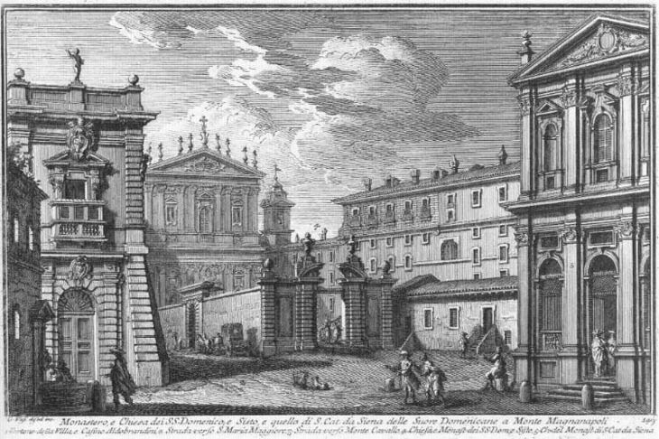 1) Entrance to Villa Aldobrandini; 2) Street leading to S. Maria Maggiore (via S. Lorenzo in Panisperna); 3) Street leading to Monte Cavallo (Quirinal); 4) SS. Domenico e Sisto; 5) S. Caterina da Siena. Typical plate size 200x300 mm. Printed edition of the engraving: unknown.